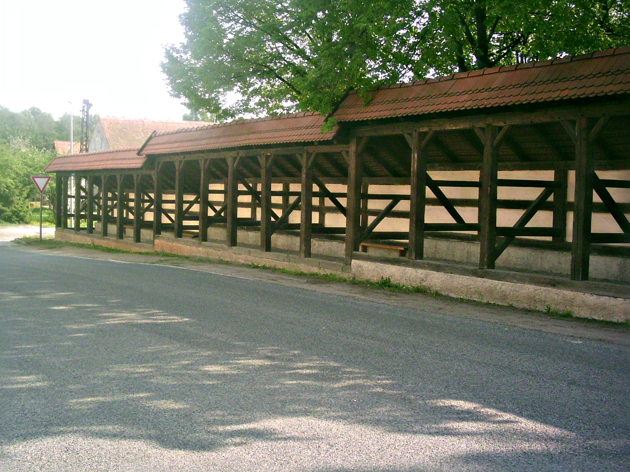 Market stalls in Diehsa